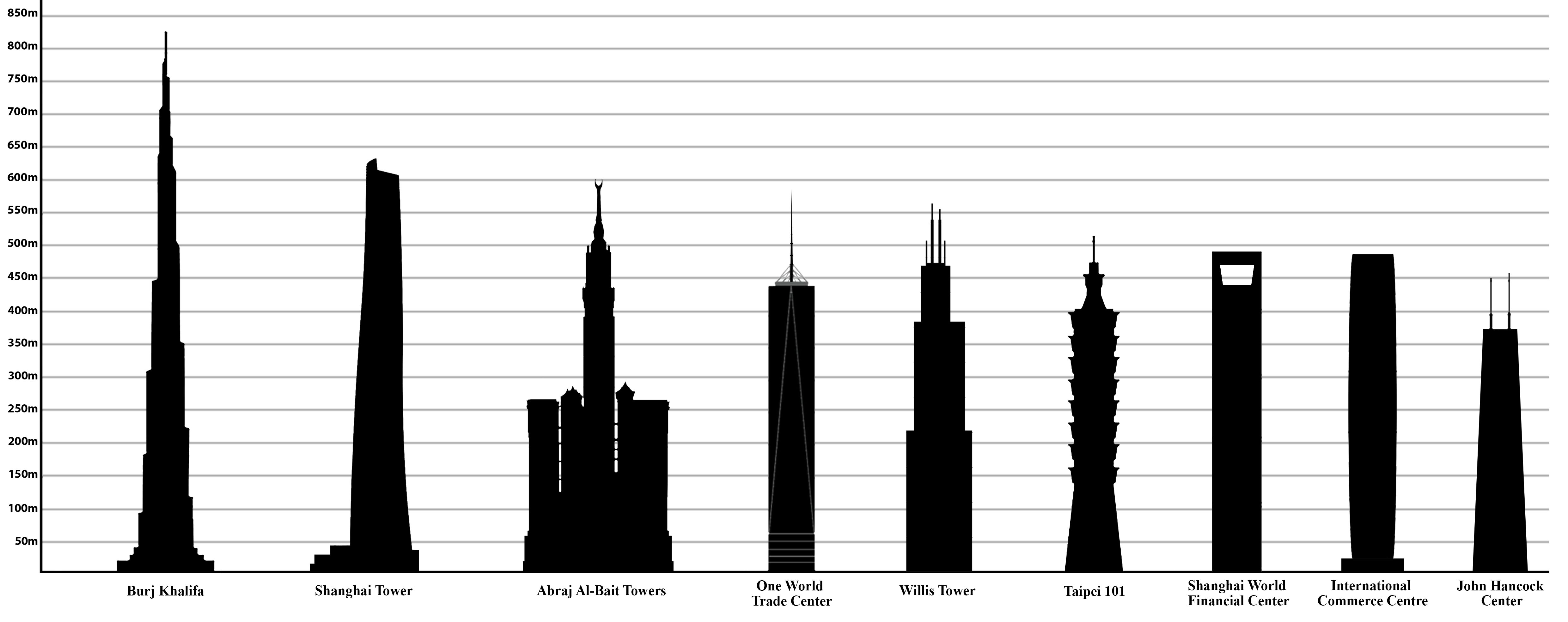 Tallest buildings in the world by pinnacle height, including all masts, poles, antennae, etc (Used data from ).